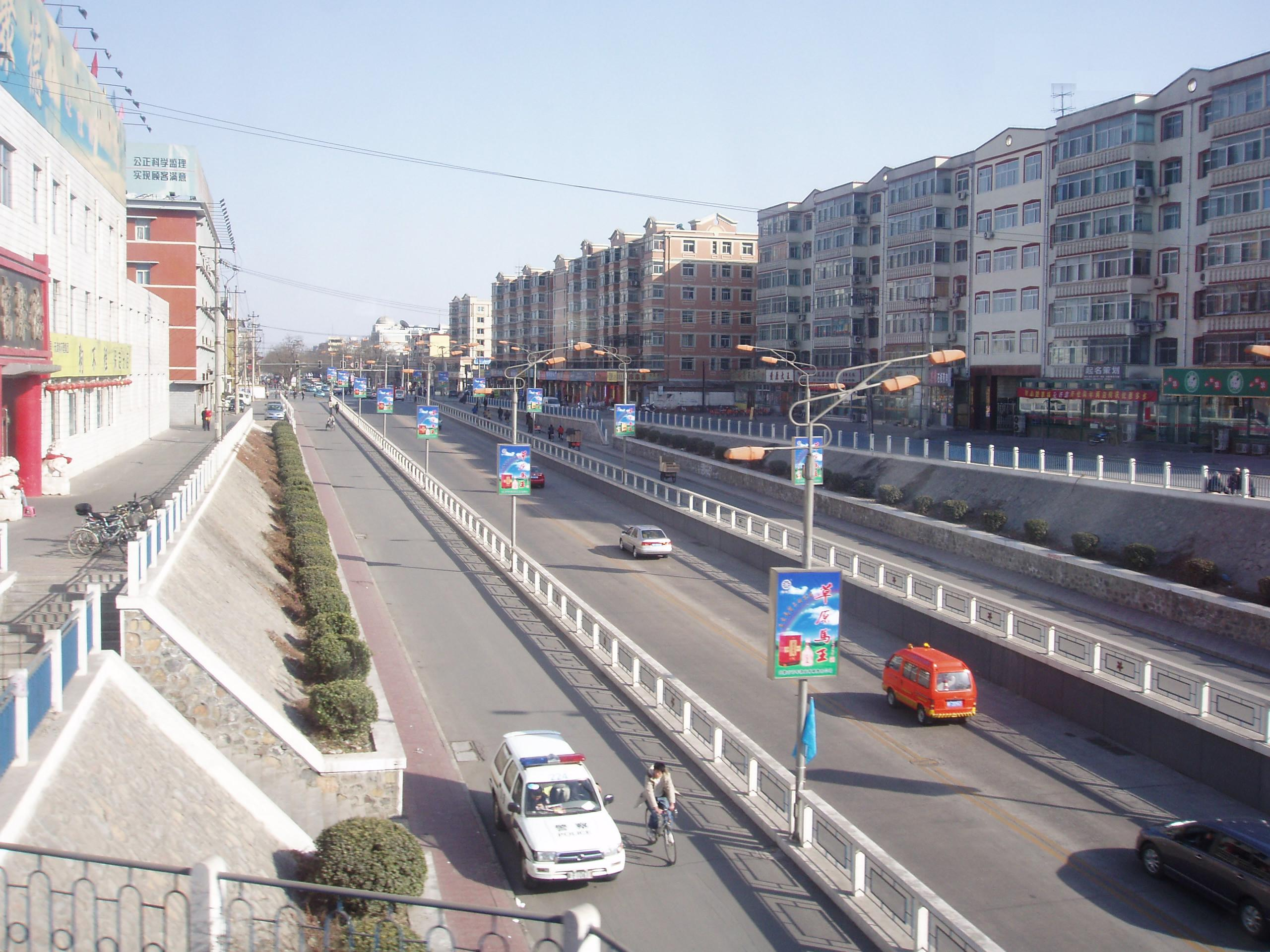 Street in Baoding, Hebei Province, China